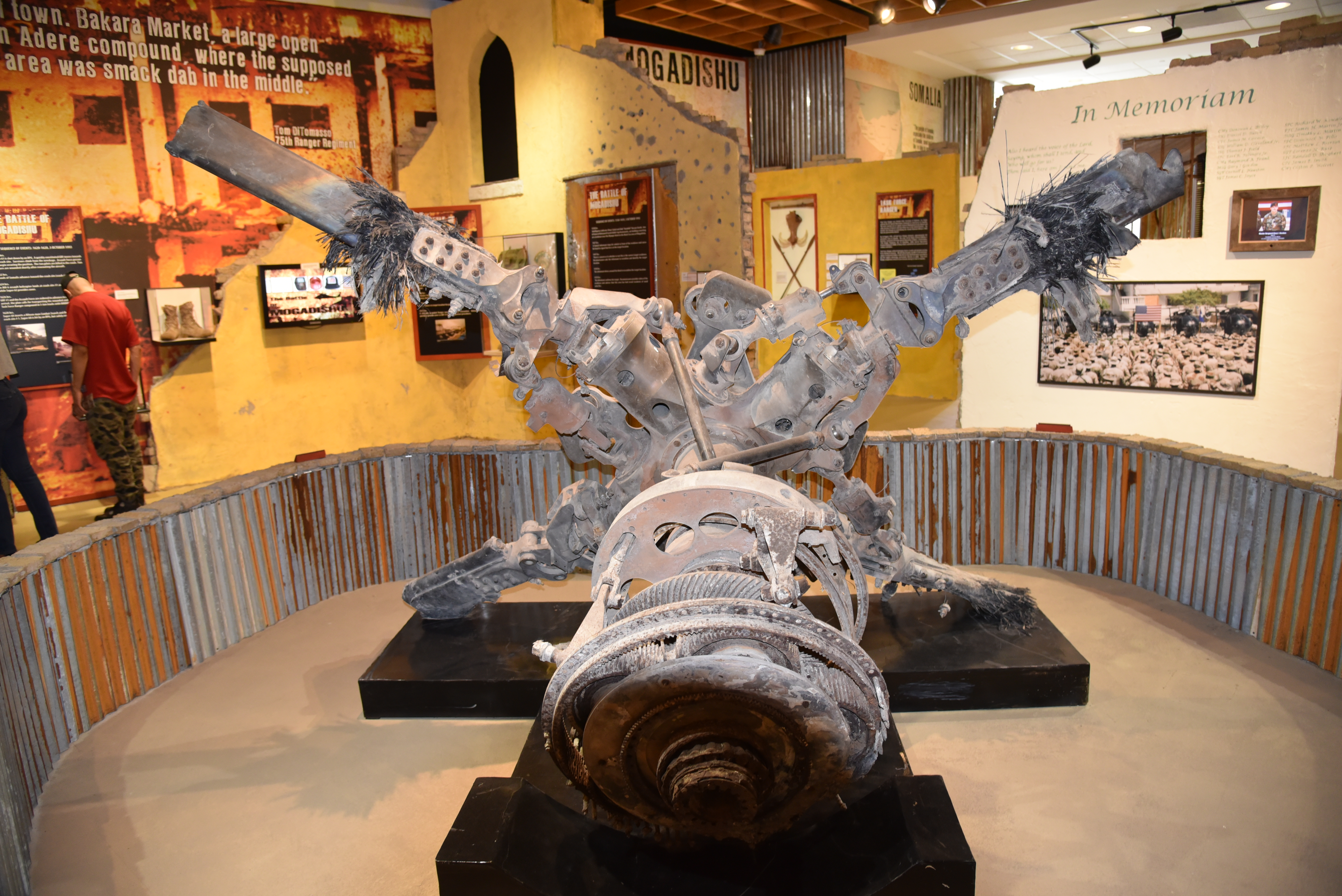 This is the remains of Black Hawk "Super 61" which was shot down in Mogadishu, Somalia in October 1993. This is one of the "Black Hawks Down".